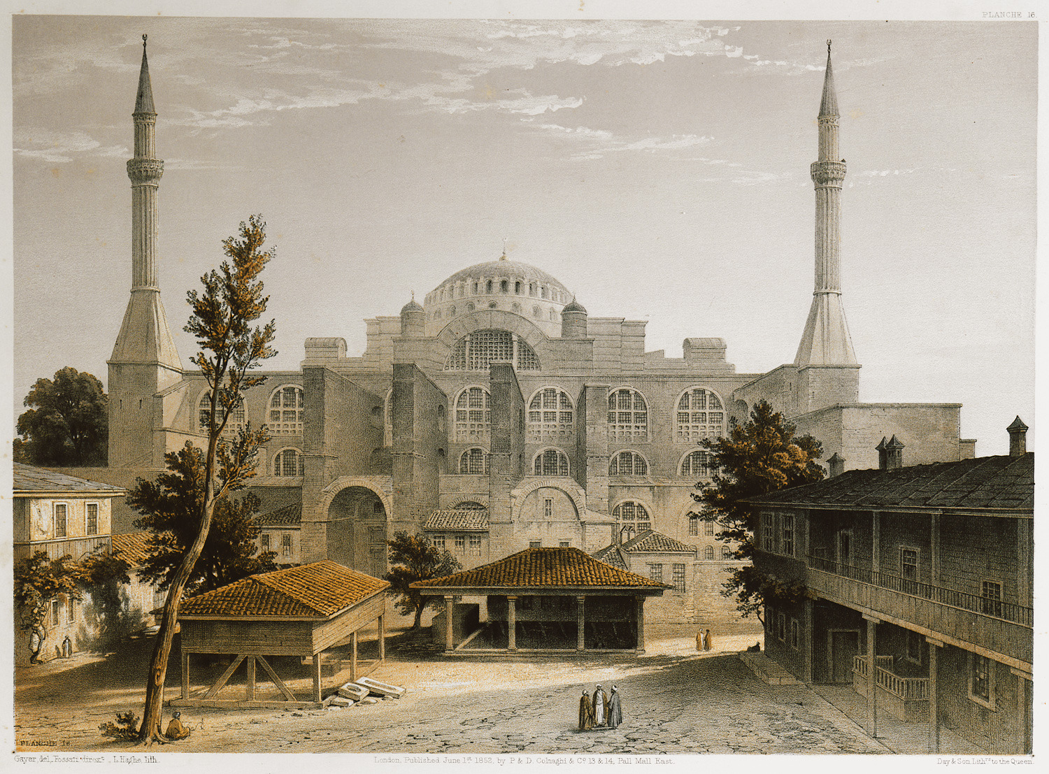 View of Hagia Sophia in Istanbul. On the right the Madrasa of Mahmut I.